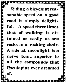 E. C. Stearns & Company - Advertisement - April 1893